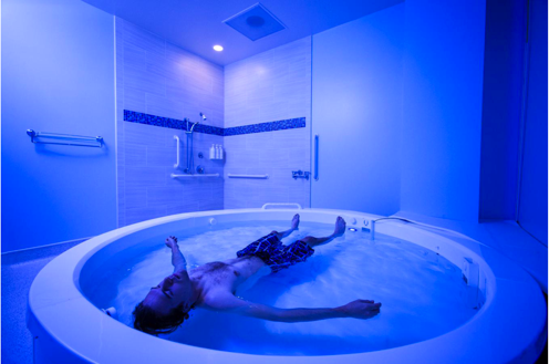 A guy floating in a float tank